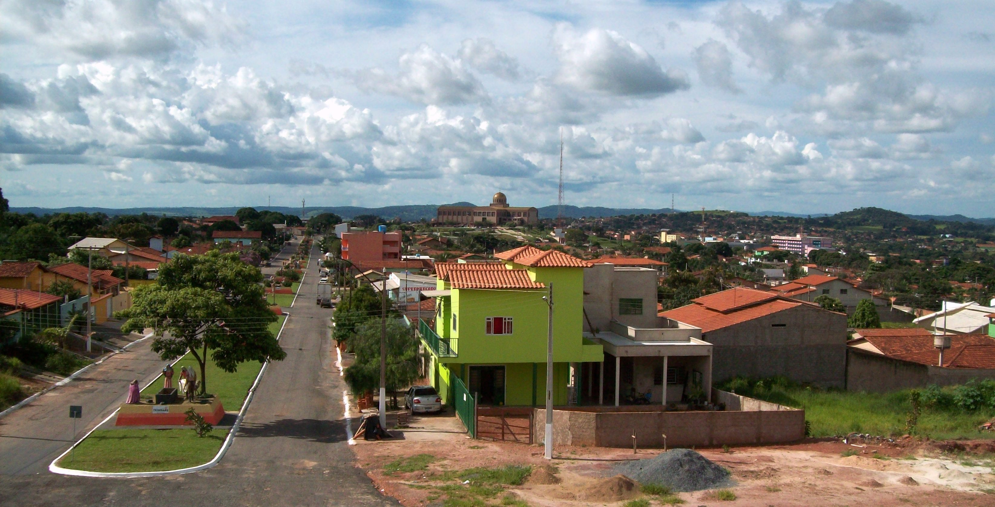 Trindade in the morning